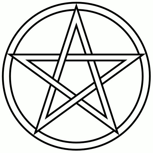 A pentagram in a circle. The pentagram in this form is often referred to as "the endless knot".